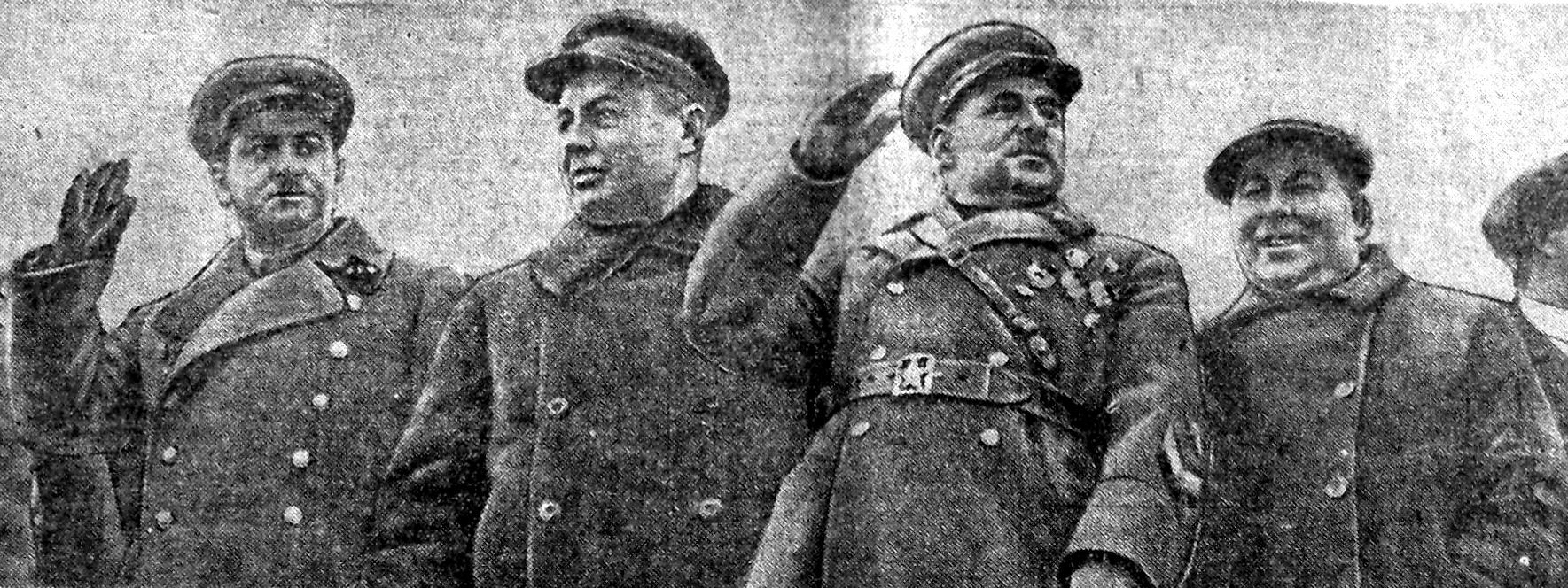 Genrikh Lyushkov, G.Stazevitch, Vasily Blyukher, 1937, Khabarovsk